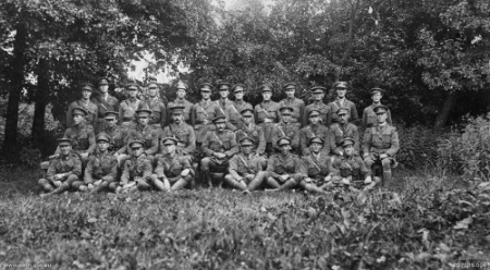 France: Picardie, Somme, Baizieux. Outdoor group portrait of officers of the 6th Battalion, AIF. Back row, left to right: Captain (Capt) Frederick Kricheldorff In 1920 Capt Kricheldorff changed his surname by deed poll to Kay. Lieutenant (Lt) Charles Henry Gould MM Capt Alfred George Carne Lt Ernest Hector Christian Lt Leslie Bowman Cadell Lt Thomas Giles Paul Lt Neville Alan Rollason Lt William Arnold Minster Lt Minster died of wounds in Belgium on 5 October 1917. Lt Matthew Abson Lt Louis Frederick Armstrong Lt William James Walker Lt Francis John Shrimpton Lt Shrimpton died of wounds in France on 15 April 1918. Lt Herbert Owen Tulley Second row: Capt William Pitt Adams Capt Charles Robert Pinney Major Frederick Lawrence Wall MC, Australian Army Medical Corps Major Jasper Kenneth Magee MC Lt Colonel Clarence Wells Didier DALY DSO Colonel Daly was killed in action on the 13th April 1918 at La Motte, France. Lt Thomas Hewett Boyd MC Lt Boyd was killed in action in Belgium on 4 October 1917. Capt Clarence Henry Taylor MC Promoted to the rank of major, Taylor died of wounds in France on 12 October 1917. Lt Joseph William Forbes Lt Forbes was killed in action in Belgium on 20 September 1917. Lt Austin Laughlin MC Capt (Chaplain) George Walter Carter Front row: Lt William Anderson Moncur Lt Donald William MacLachlan Lt Percival Louis (Percy) Rauert Lt Norman Reginald Tutton MC ? Thompson; Capt E Smith Lt Alfred William Rachinger Lt Frederick Birks MM Lt Birks was killed in action in Belgium on 21 September 1917 and was posthumously awarded the Victoria Cross.